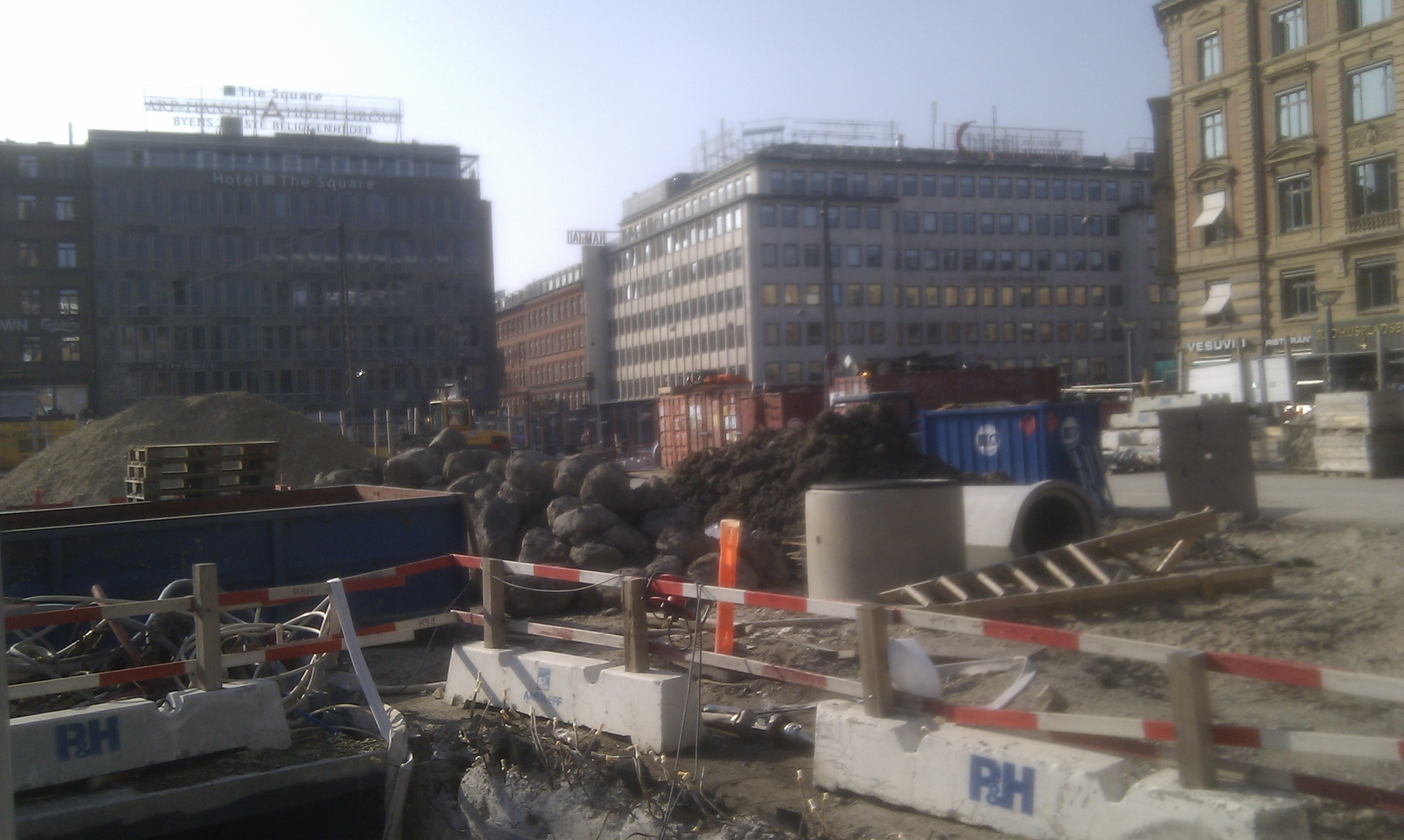 Future site of Rådhuspladsen metro station.